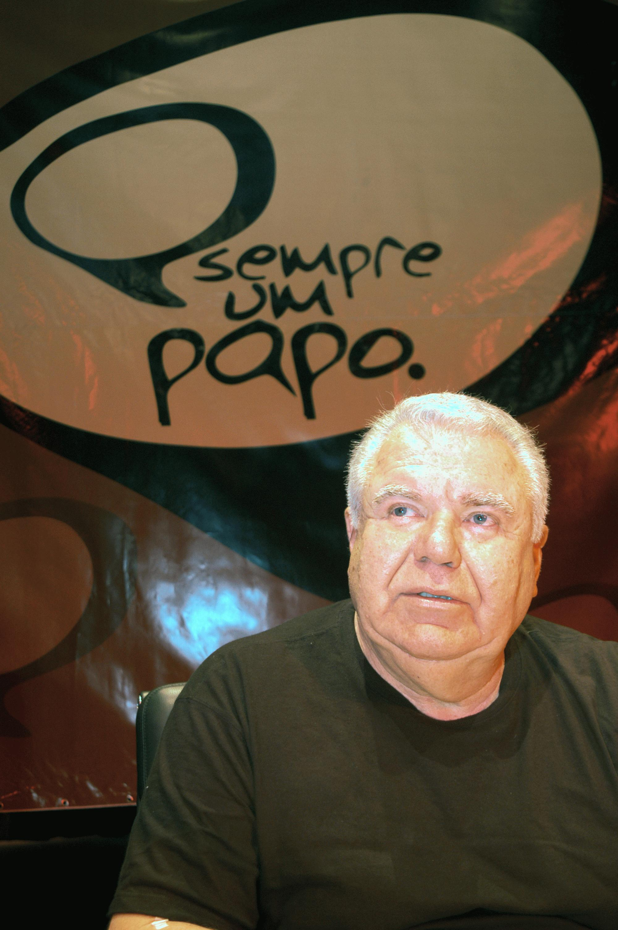 Jaime Lerner, former governor of Paraná, grants interview during release of his book, "Acupuntura Urbana".